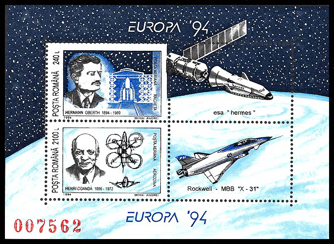 Miniature sheet of Romania, 1993. Issue on the program EUROPE.